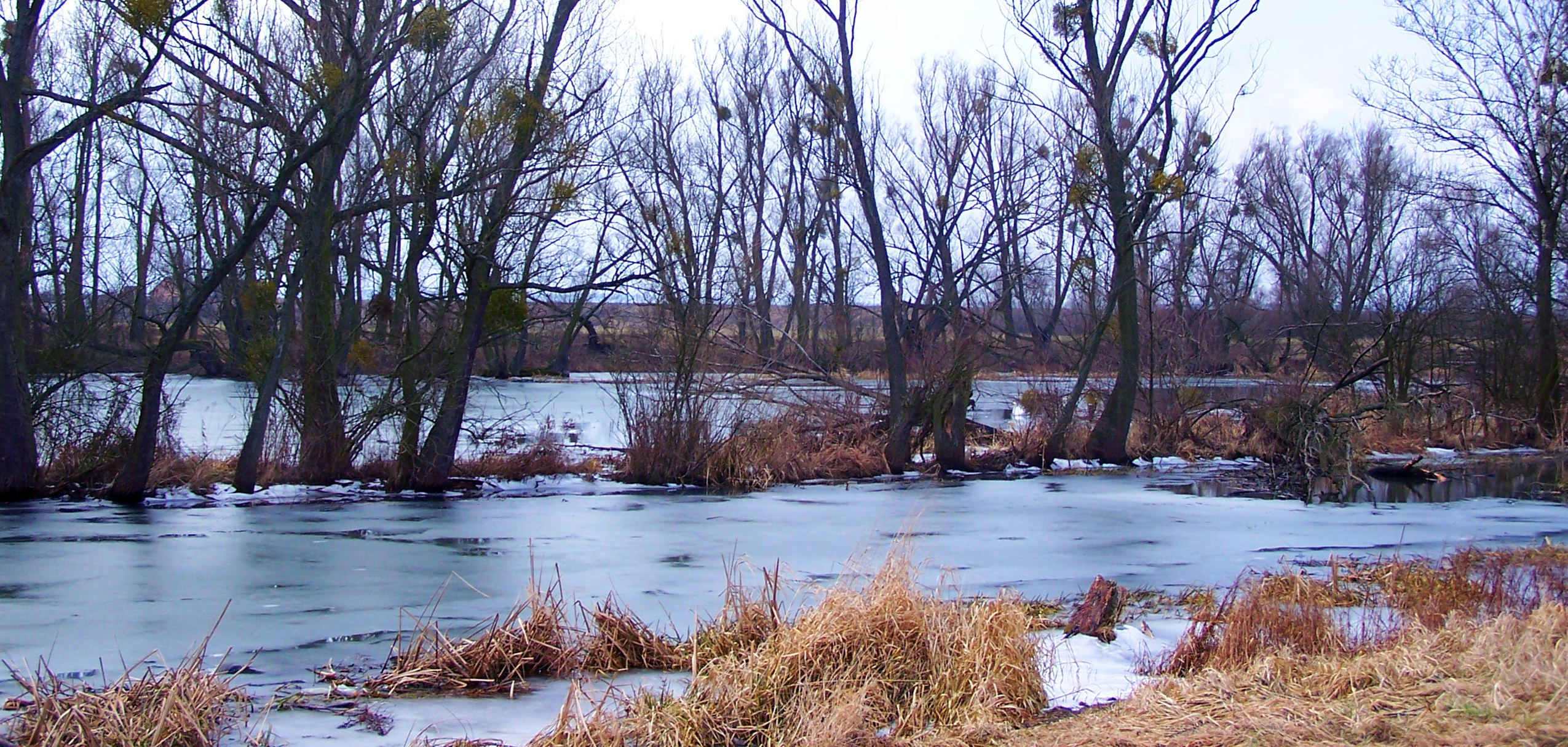 Rozlewisko